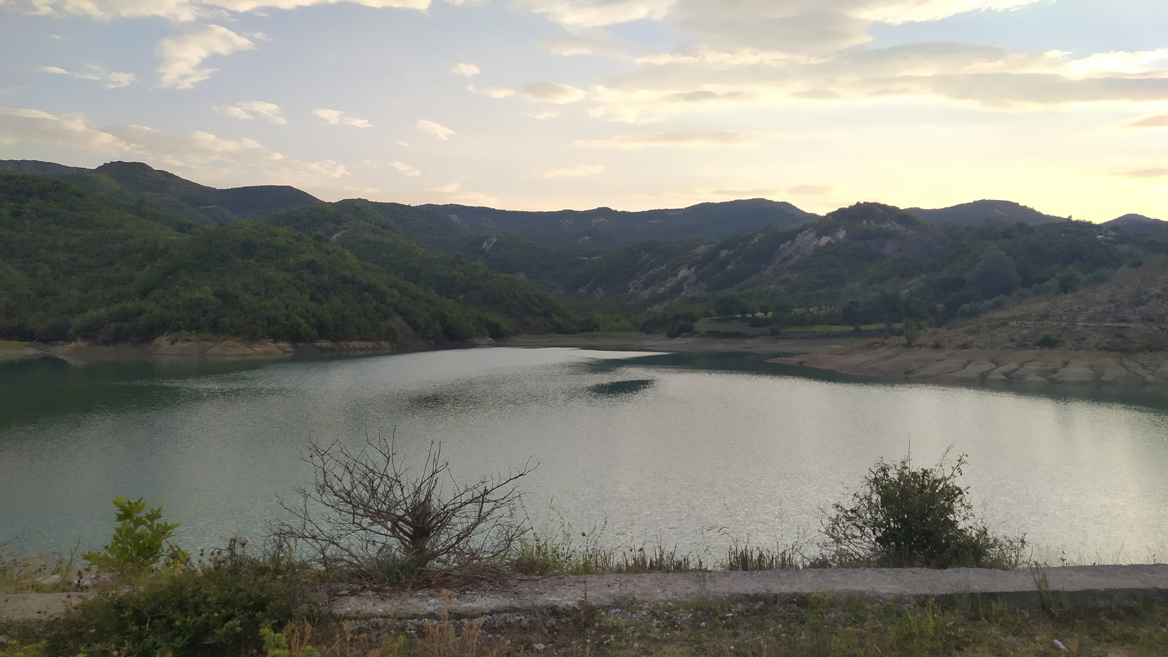 Lake of Hykaj